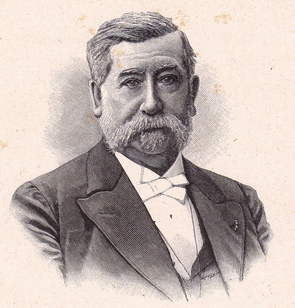 French botanist Louis Édouard Bureau (1830-1918).